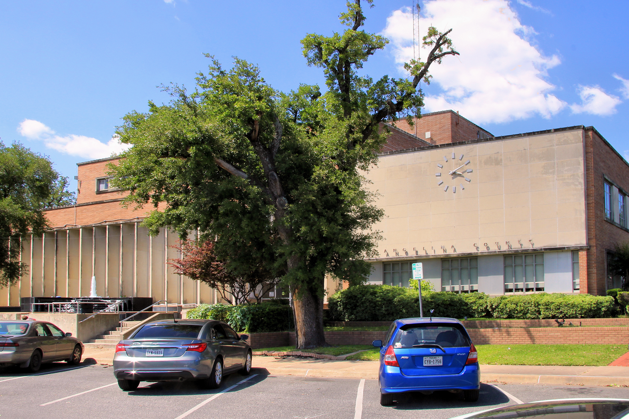 The Angelina County Courthouse in Lufkin, Texas, United States. Built in 1955, the look of the building was dramatically altered in 1962.